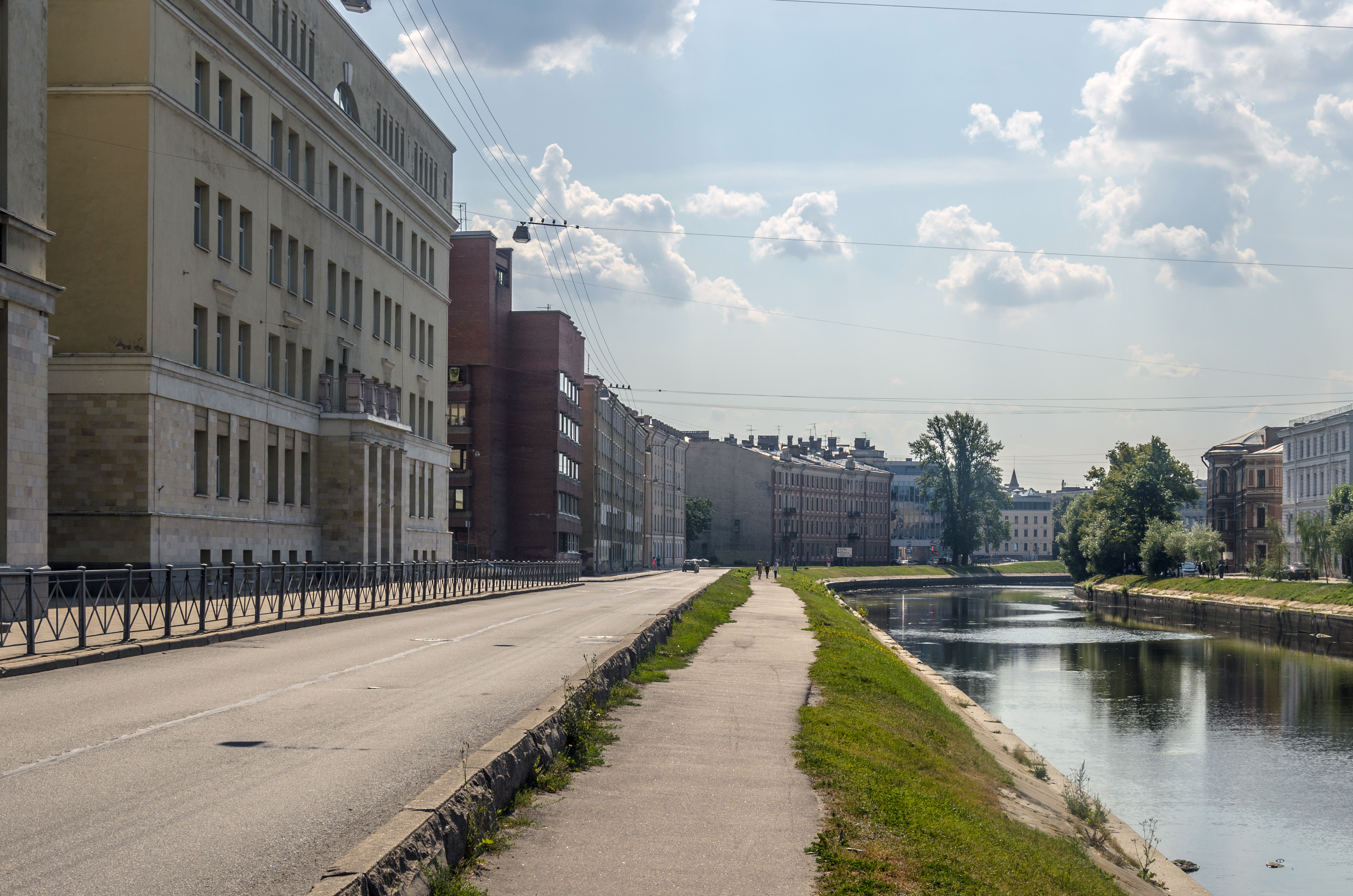 Pryazhka River in Saint Petersburg